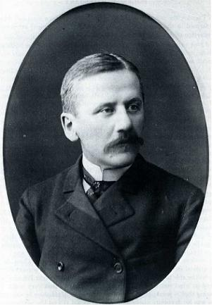 Portrait photograph of Modest Ilyich Tchaikovsky, playwright, librettist and brother of composer Pyotr Ilyich Tchaikovsky.